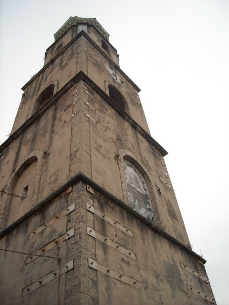 free